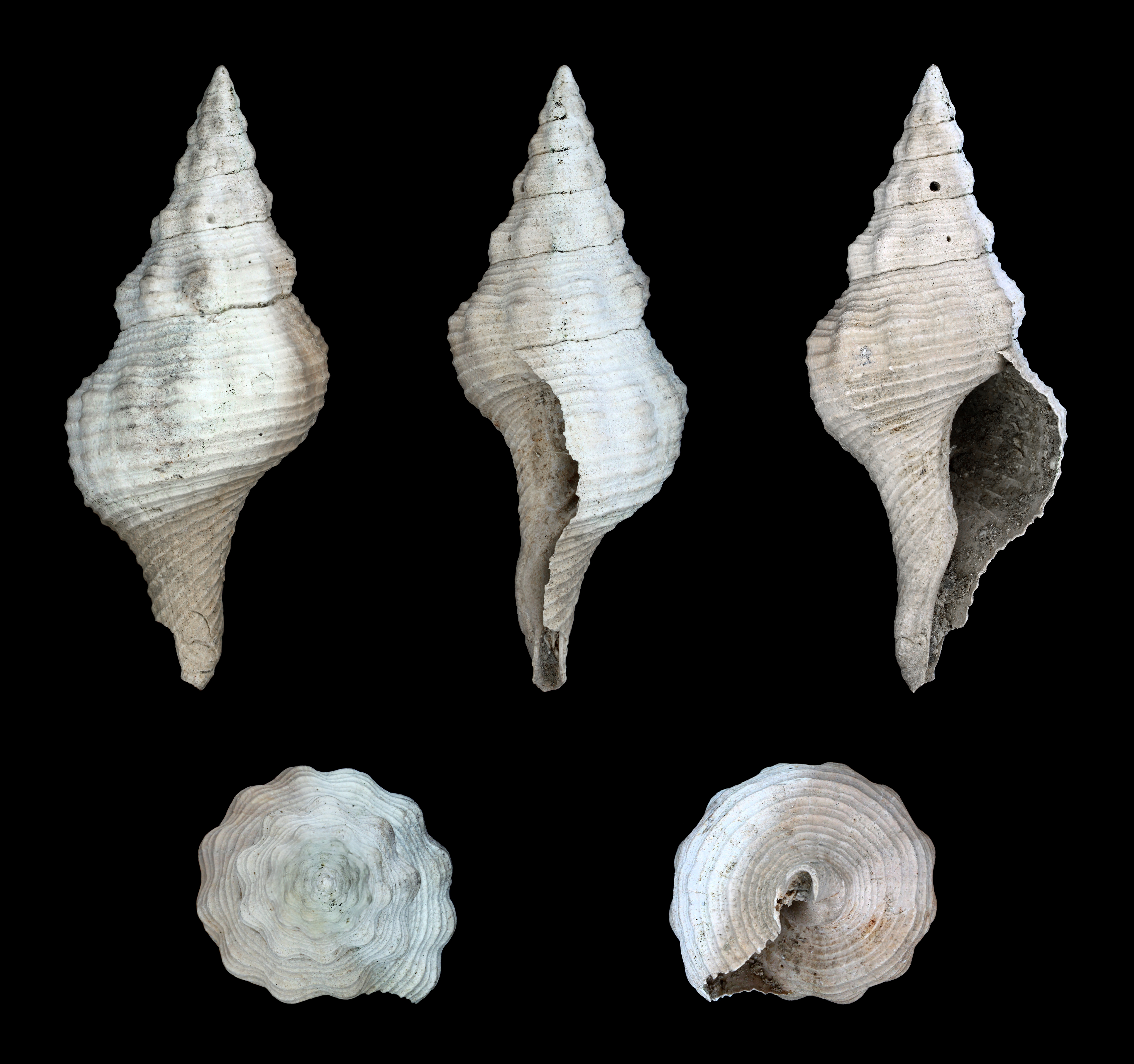 Length 6.7 cm; Tertiary, Pliocene, La Belle, Florida, USA ; Shell of own collection, therefore not geocoded. Dorsal, lateral (right side), ventral, back, and front view.